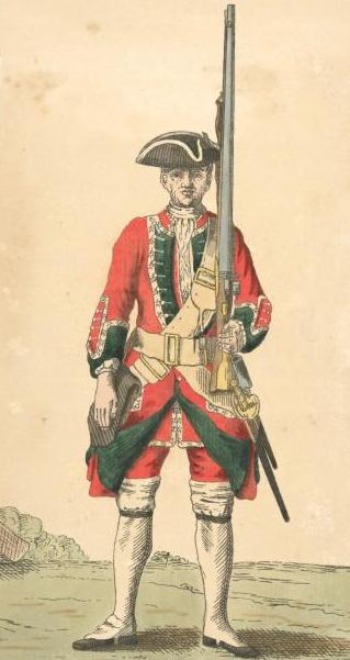 Soldier of the 46th regiment (1742)